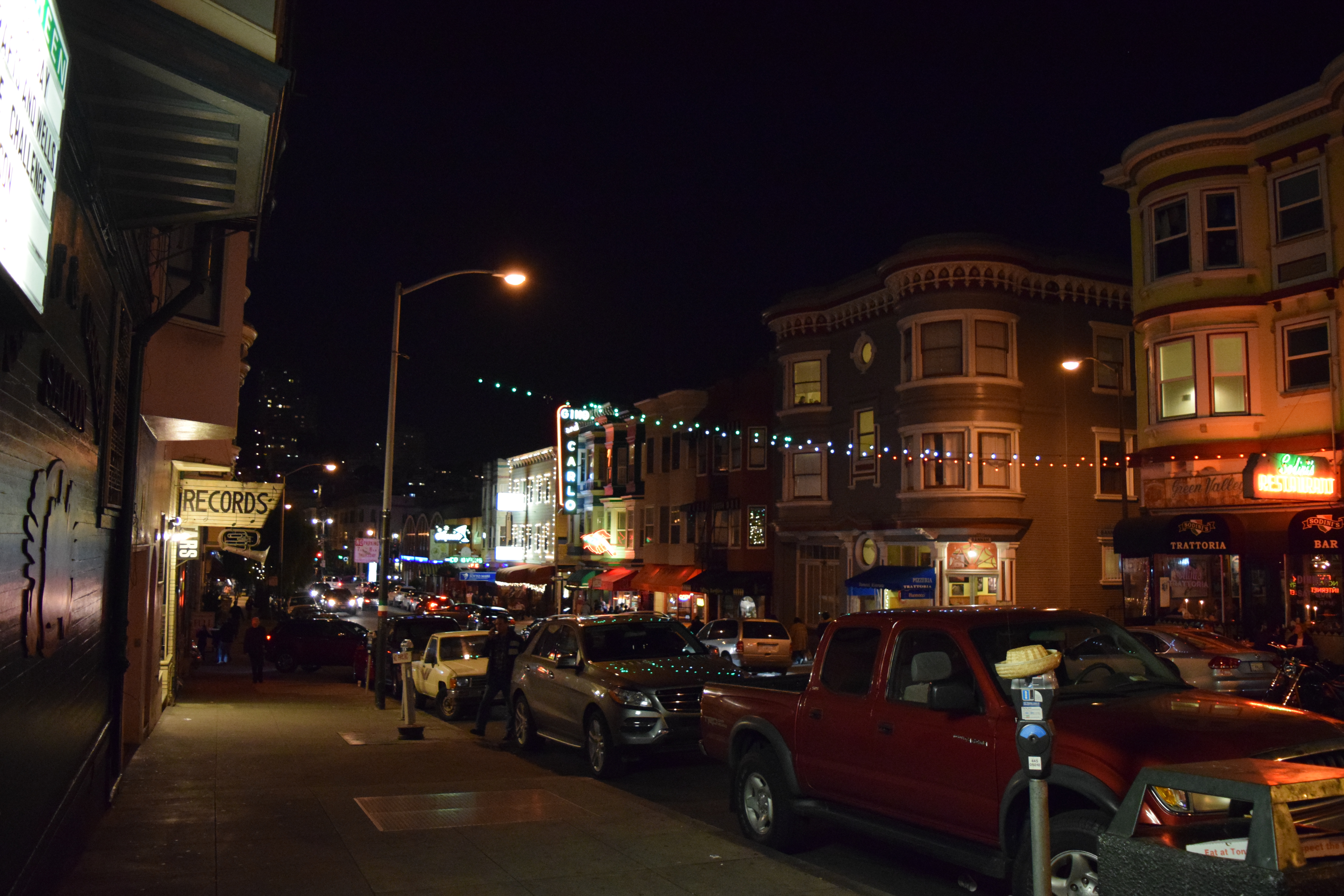 View of Green Street looking west towards Columbus Avenue.